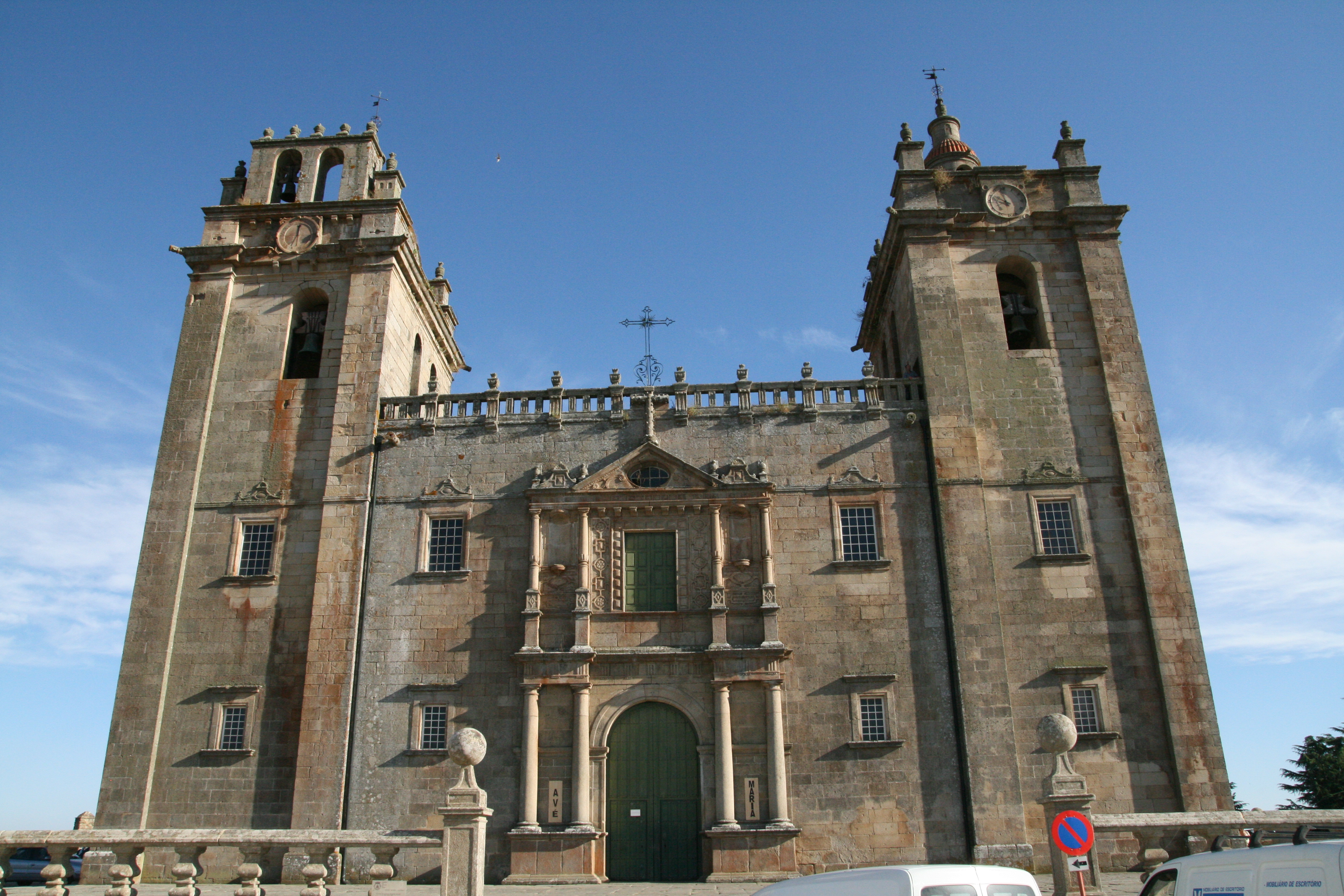 This monument is classified as Monumento Nacional. This file was uploaded for Wiki Loves Monuments in Portugal with the unique identifier 70282.